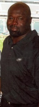 Former Eagles Defensive Tackle Hugh Douglas watching a game from the press box in 2008